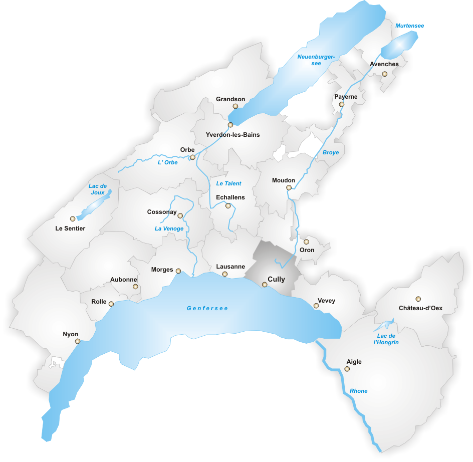 District Lavaux until 2007